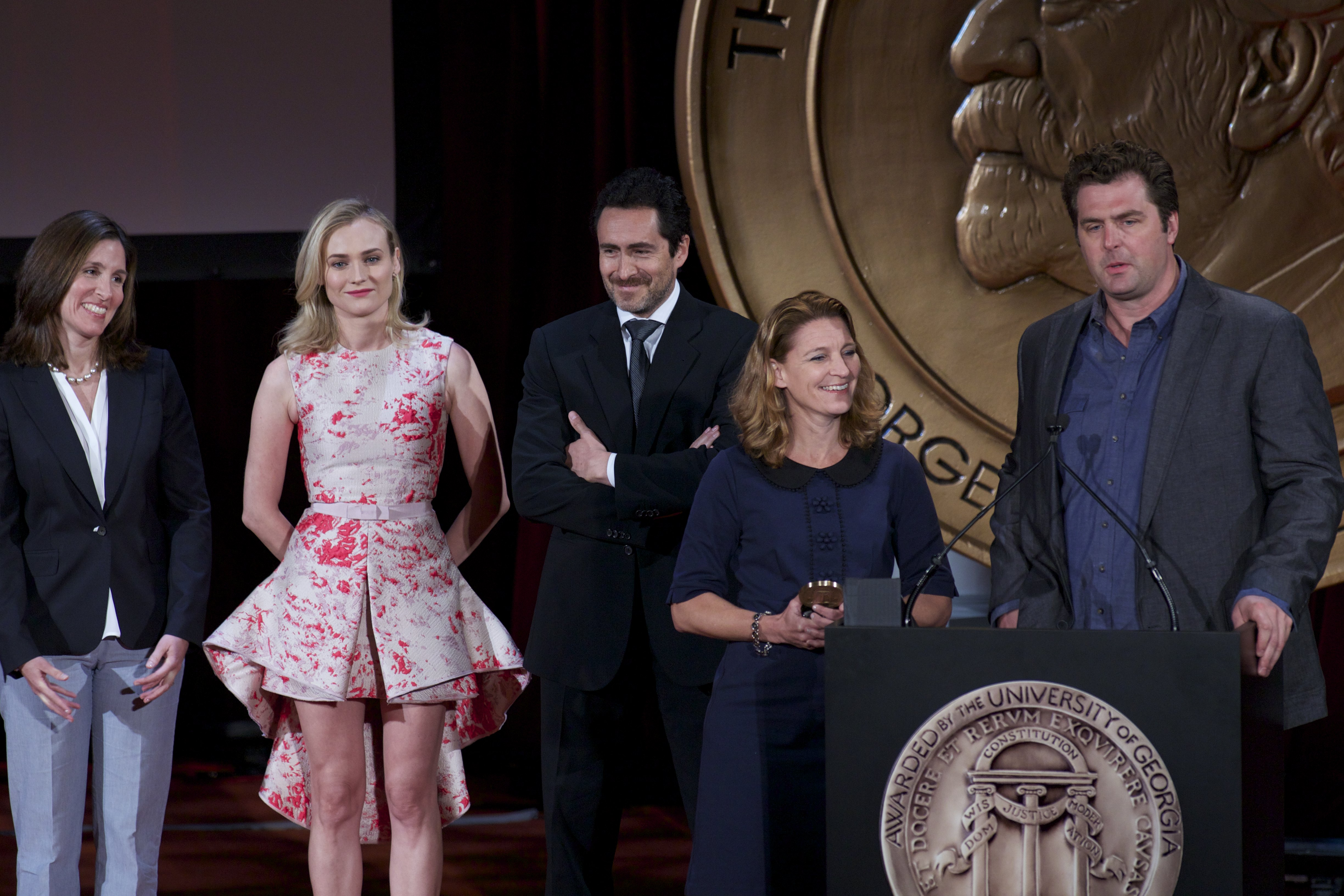 Demian Bechir and Meredith Stiehm accept the Peabody Award for The Bridge. They are joined on stage by Diane Kruger and Elwood Reid.